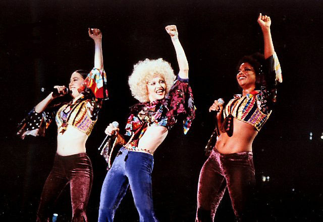 Photo taken during one of the concerts in 1993